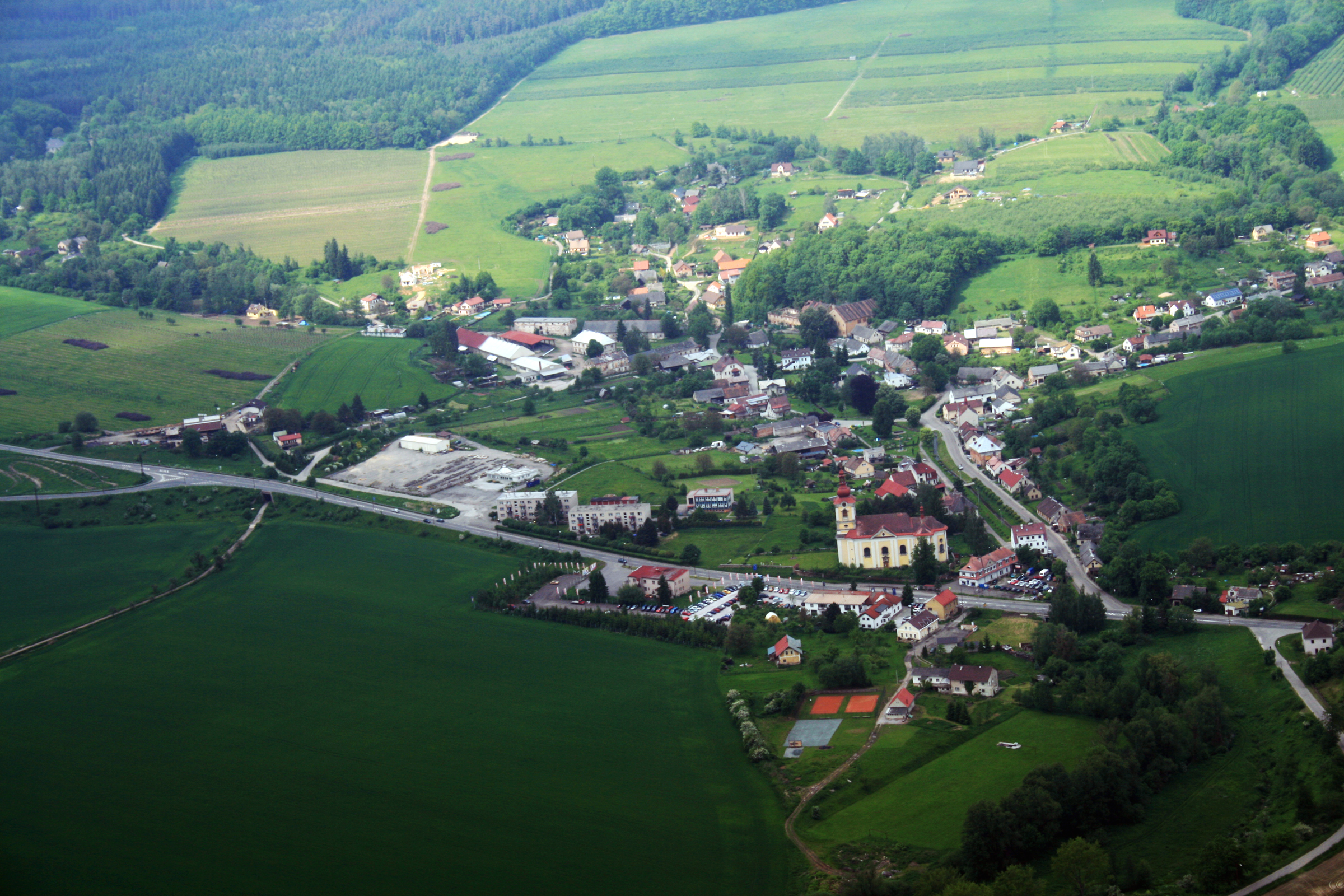 Village Choustníkovo Hradiště near of town Dvůr Králové nad Labem from air, eastern Bohemia, Czech Republic